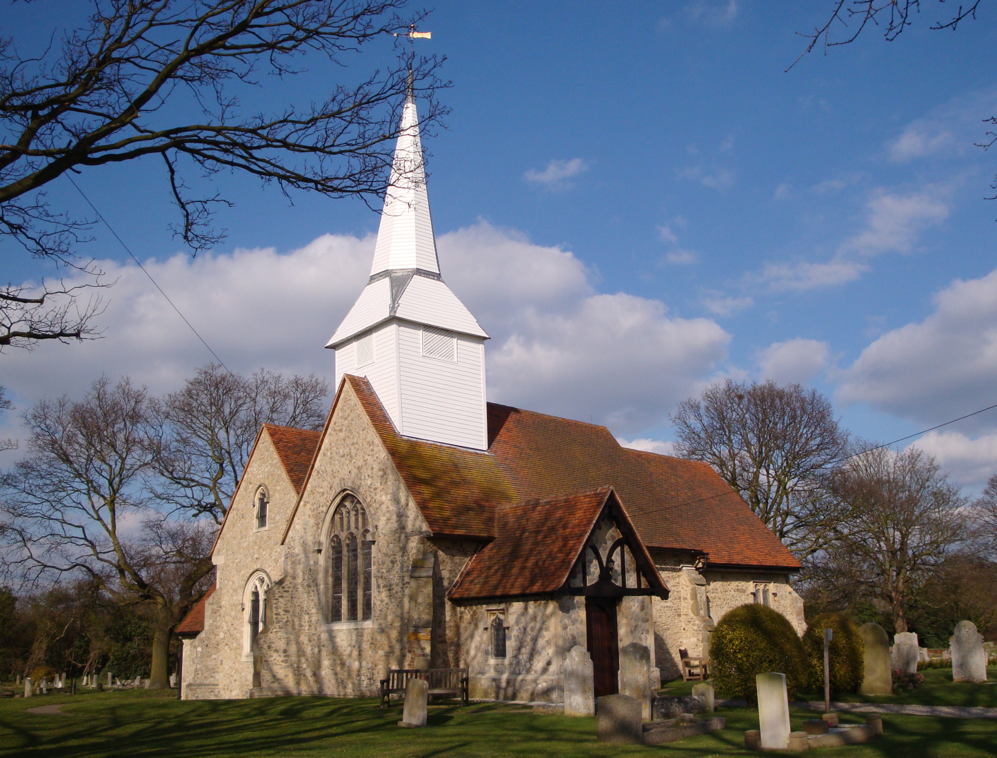 View of St.Marys Church, Hawkwell, Essex